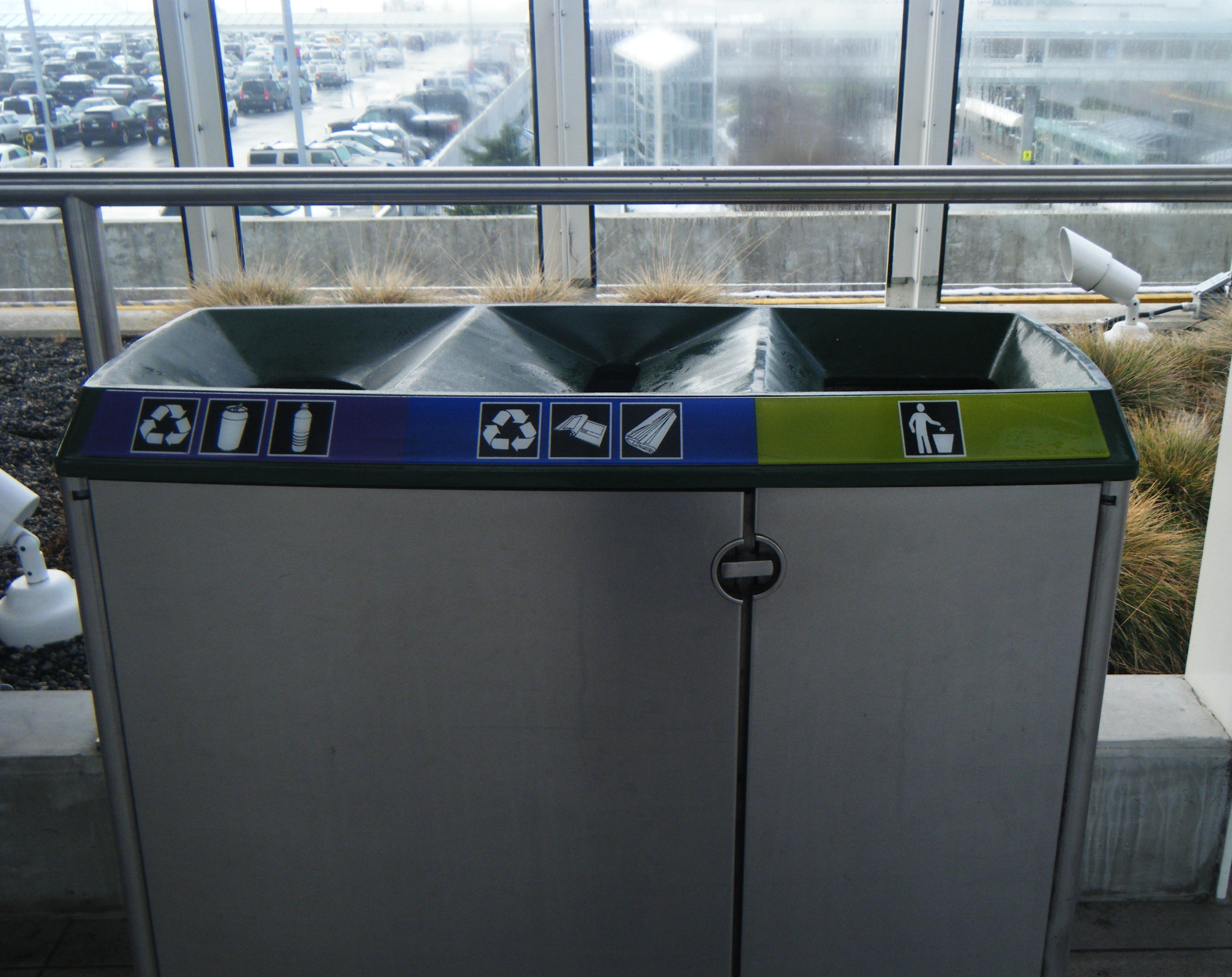 Recycling and trash bins at YVR on the way to the Canada line